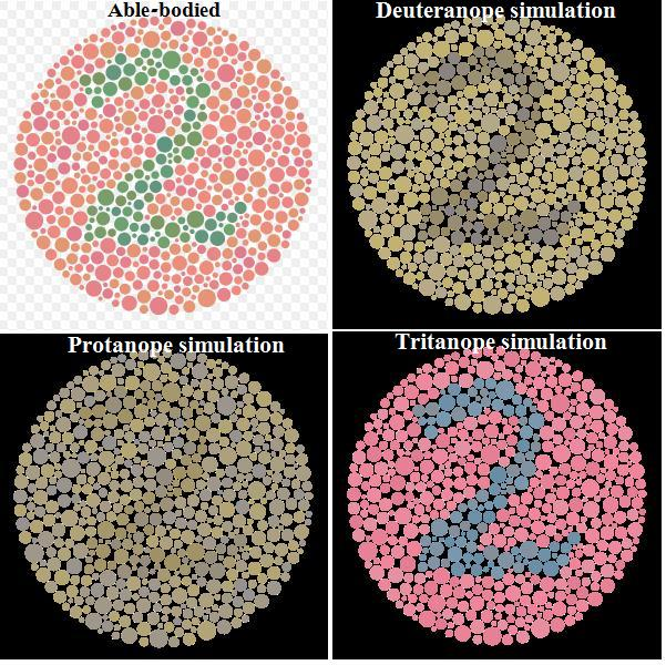 An Ishihara test image as seen by able-bodied and by persons with a variety of Daltonism forms.